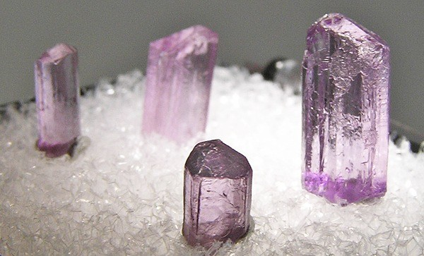 Scapolite Locality: Daftar (Dabdar), Tashiku'ergan (Taxkorgan; Tashqurqan) County, Kashi (Kashgar; Qeshqer) Prefecture, Xinjiang (Xinjiang-Uygur) Autonomous Region, China (Locality at ) Size: 0.9 x 0.6 x 0.4 cm, 0.6 x 0.2 x 0.2 cm, 0.4 x 0.4 x 0.2 cm, 0.4 x 0.3 x 0.2 cm. These four little gem crystals are from an exciting find a couple of years back in China, of gemmy purple scapolite. All four crystals are terminated and absolutely transparent from top to bottom.